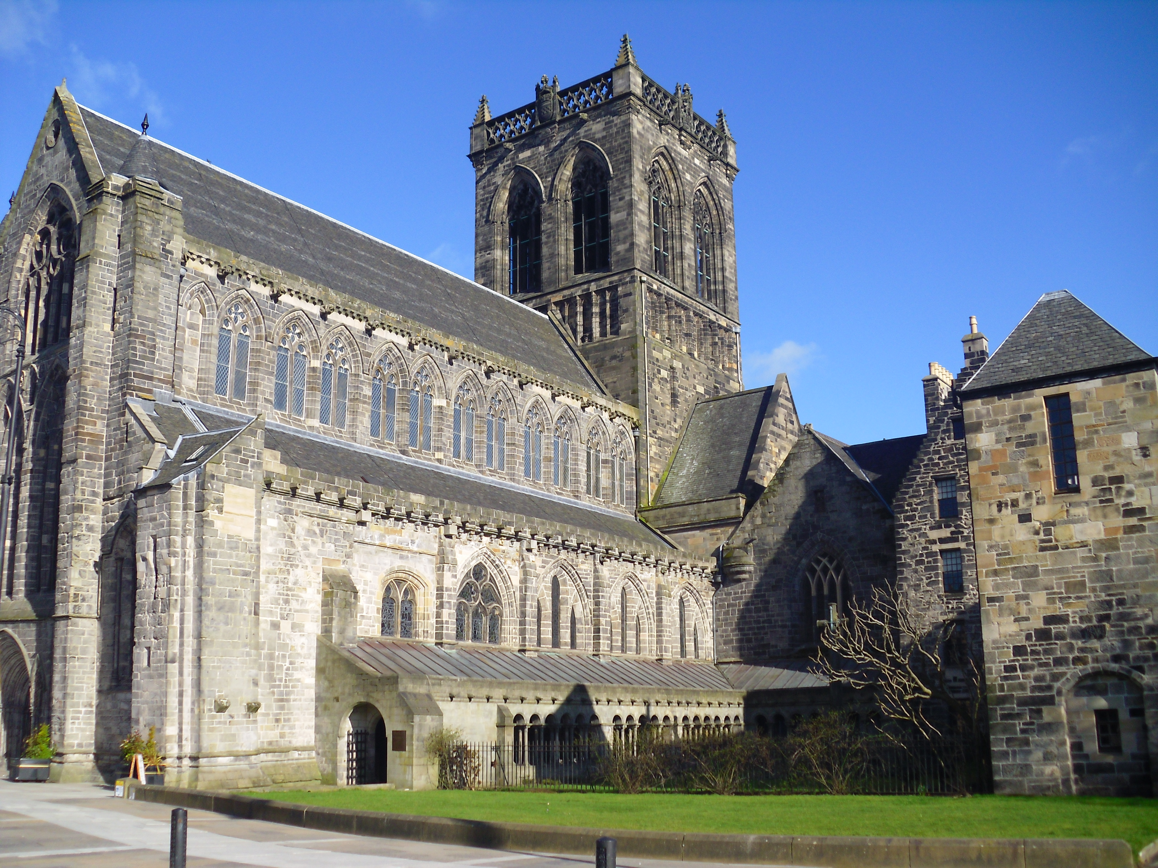 Paisley Abbey, Renfrewshire.